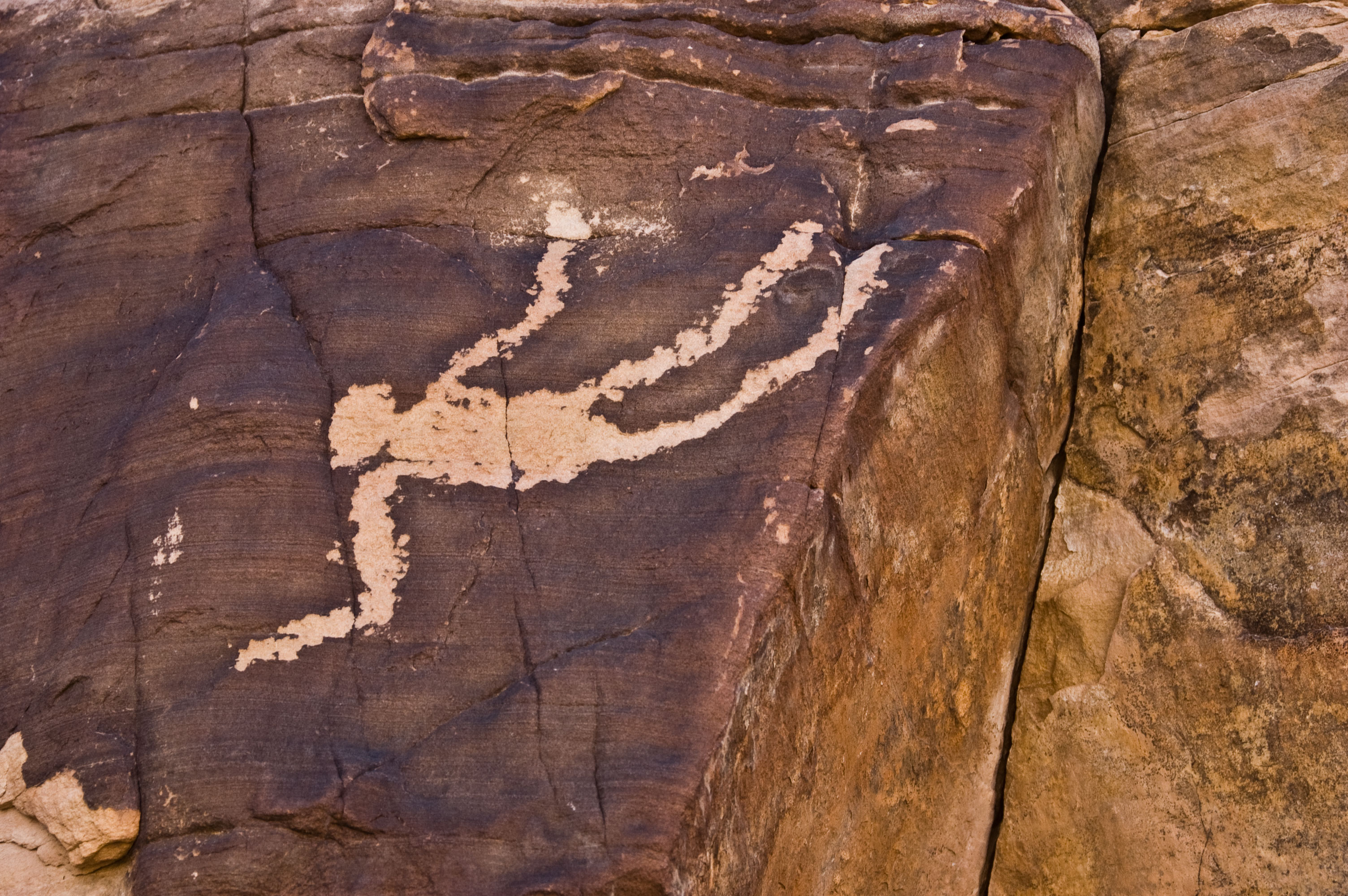 Falling Man